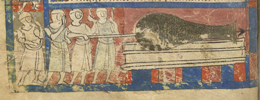 Cannon and cannon-shooters from the page from 'About the Secrets of Secrets' manuscript by Pseudo-Aristotle, 1320s (British Library, Additional MS 47680, f.44v).